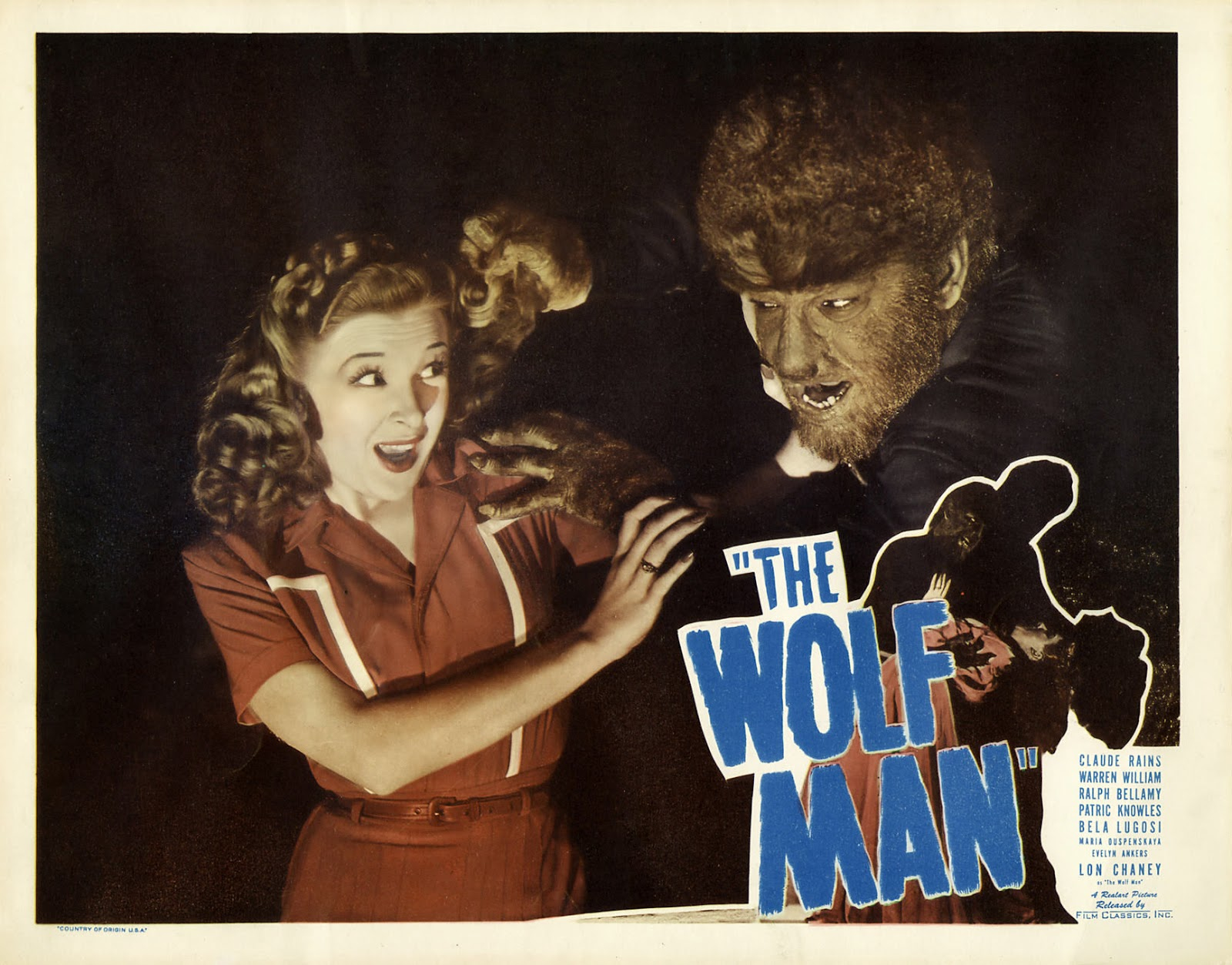 Lobby card for Universal Studios' The Wolf Man featuring Lon Chaney Jr as the title character. This image is assumed to be in the public domain as no copyright notice is in evidence.